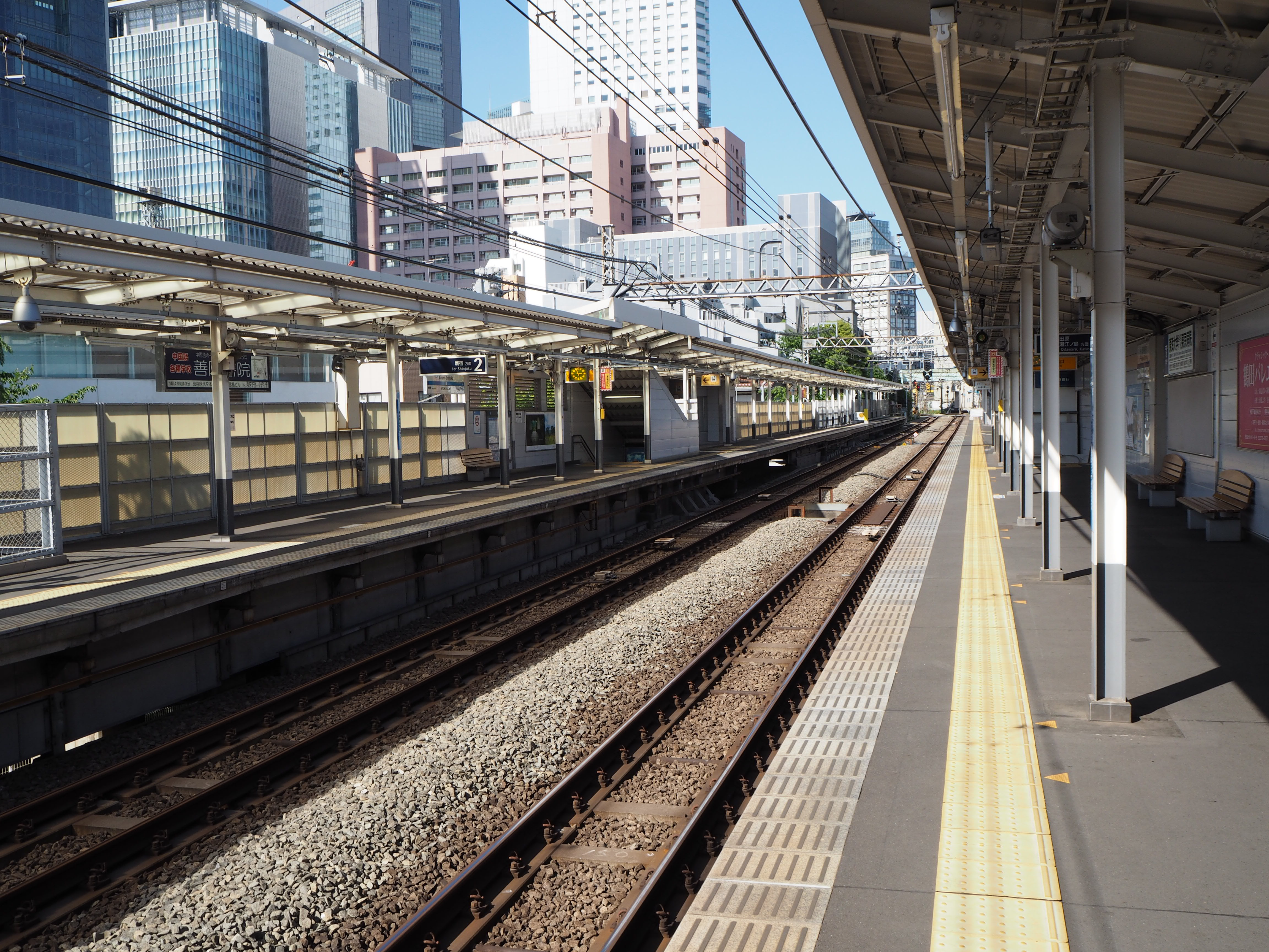 Platforms of Minami-Shinjuku station